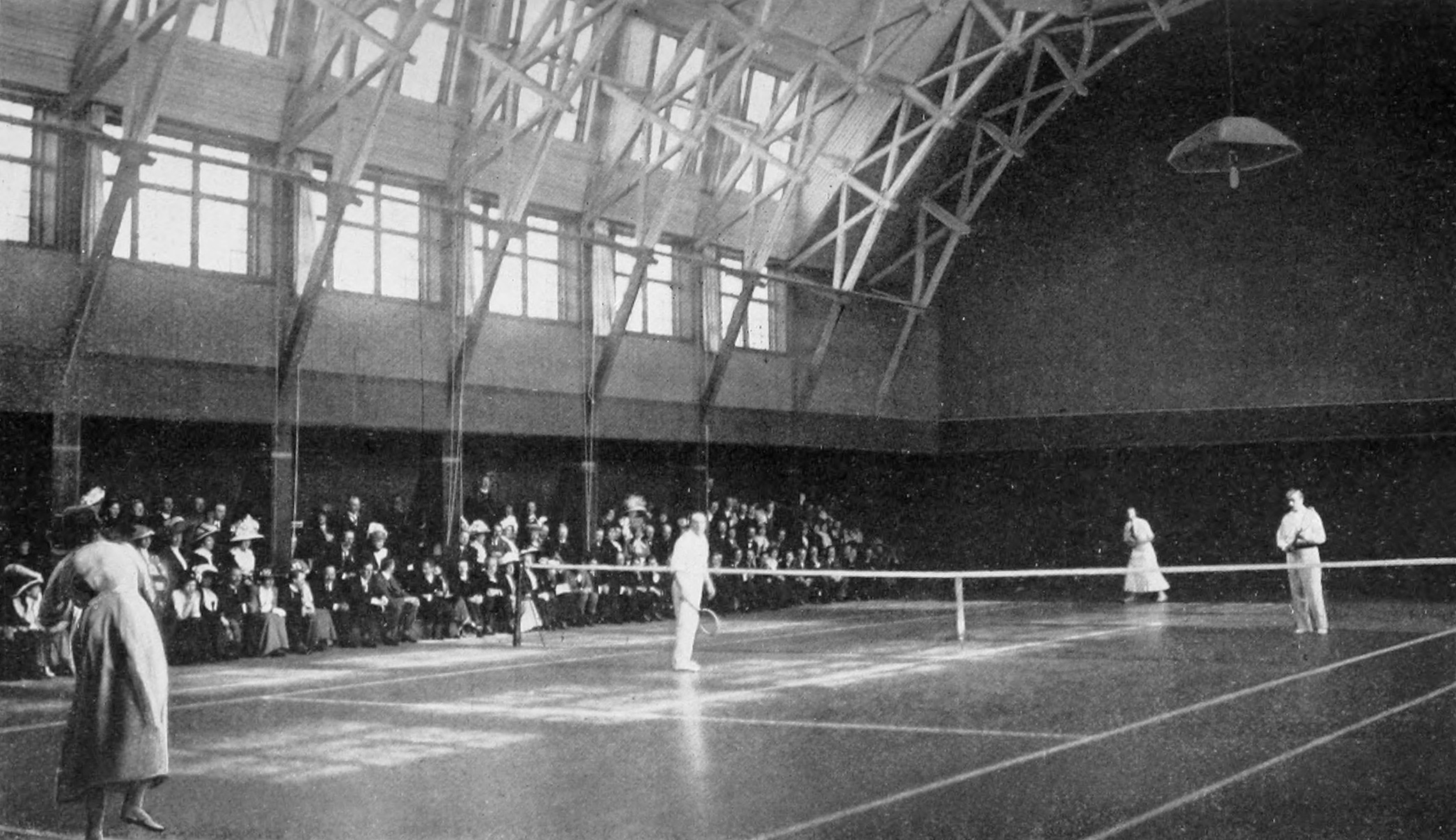 Tennis at the 1912 Stockholm Olympics, mixed doubles finals. From left: Edith Hannam and Charles Dixon (this side of the net) vs. Helen Aitchison and Herbert Roper Barrett